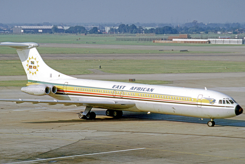 Vickers Super VC-10 5H-MOG of East African Airways Corporation at London Heathrow in 1973